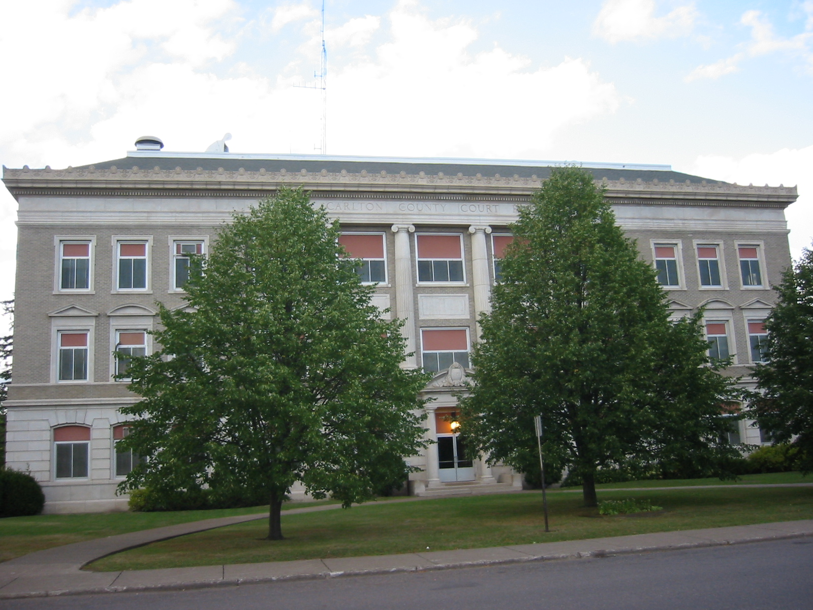 Carlton County Courthouse in Carlton, Minnesota